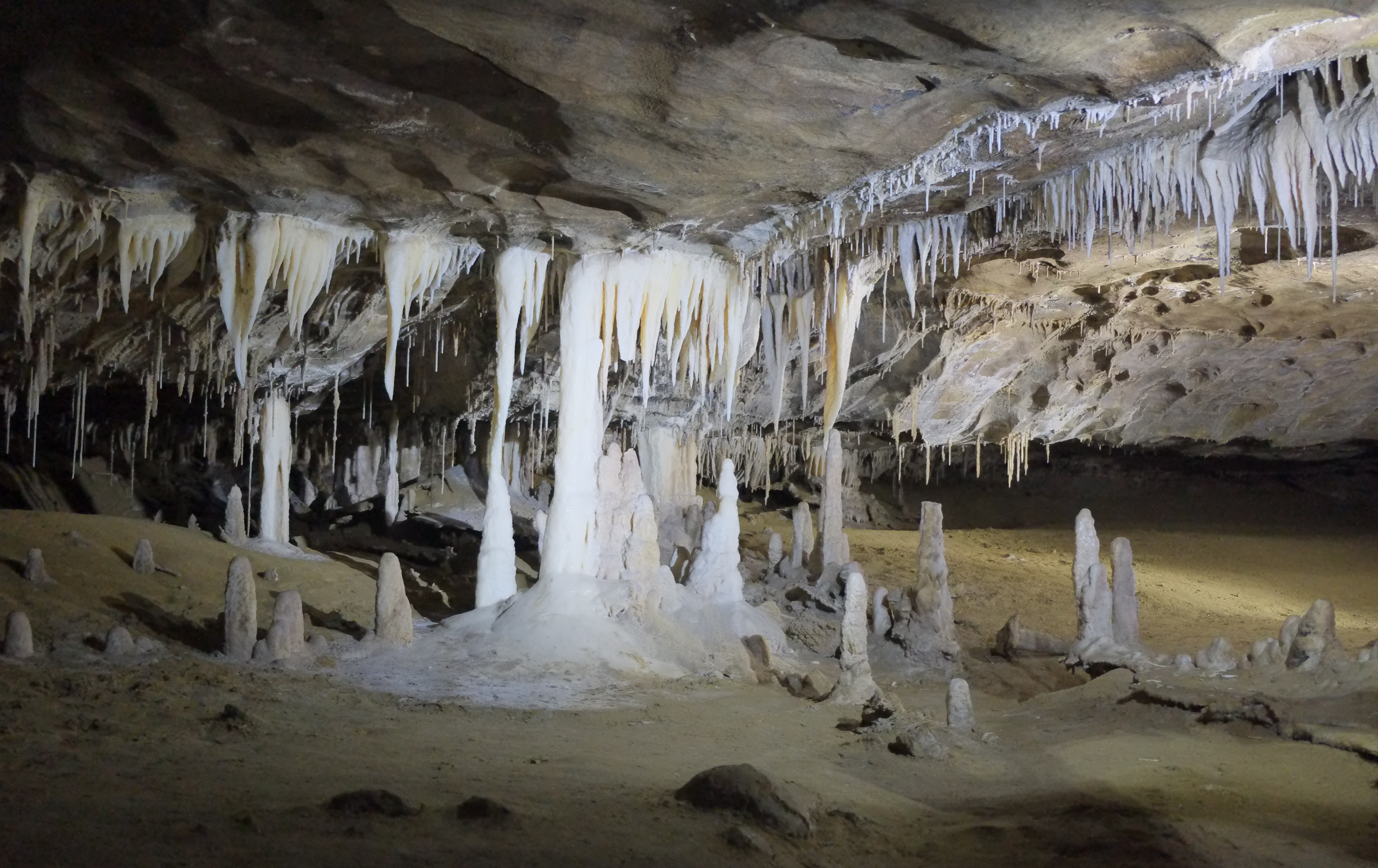 Cavern full of stalactites and stalagmites in Metro Cave / Te Ananui Cave